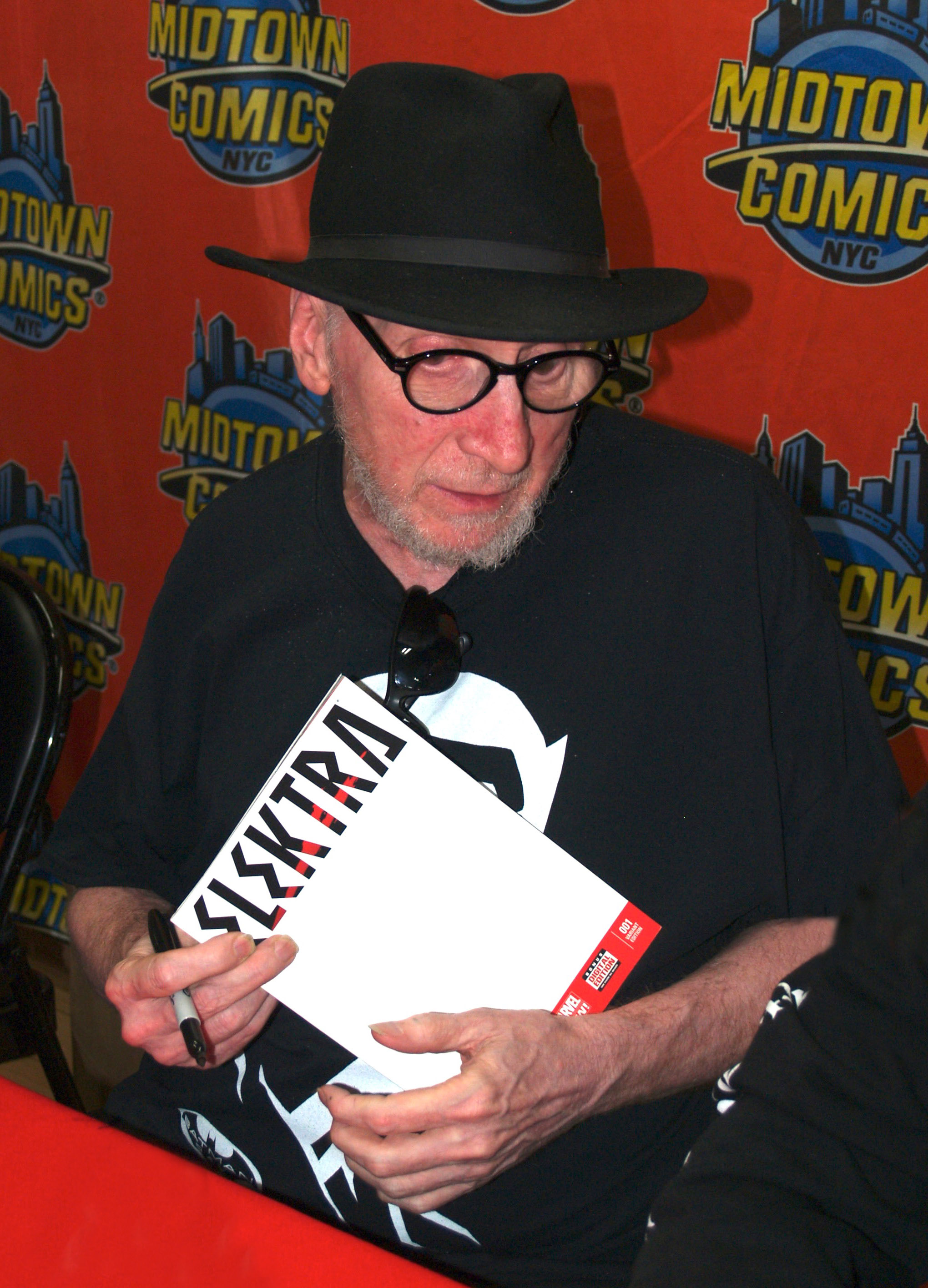 Comics writer/artist Frank Miller sigining a copy of Elektra, which features a character he created, during an appearance at Midtown Comics Downtown September 17, 2016, the third annual Batman Day, when DC Comics celebrates the creation of the character Batman. This photo was created by Luigi Novi. It is not in the public domain, and use of this file outside of the licensing terms is a copyright violation.